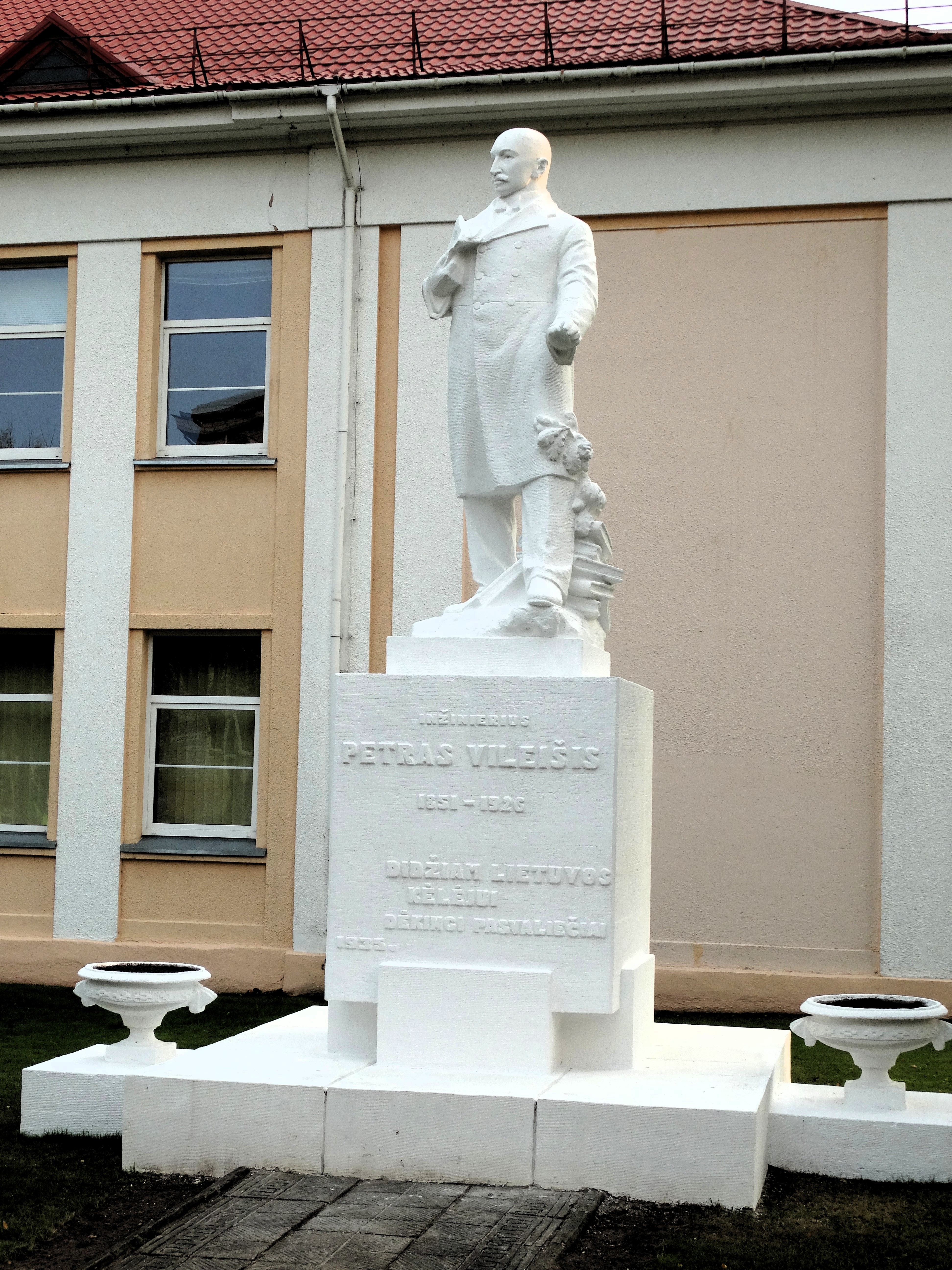 Monument to Petras Vileišis (by sculptor Vincas Grybas, 1890–1941), Pasvalys , Lithuania